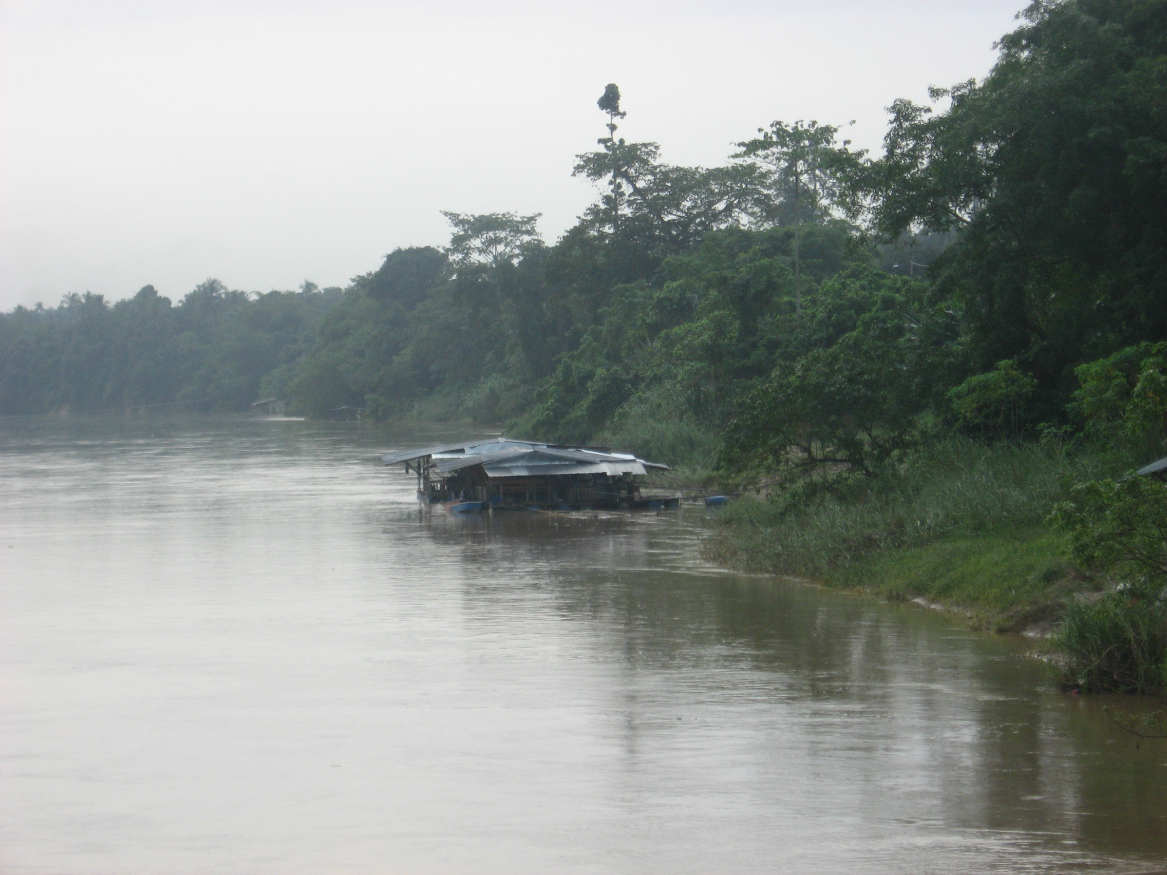 Raft house near Temerloh, in Malaysia. Credits Tabdulla 14:33, 29 January 2007 (UTC)